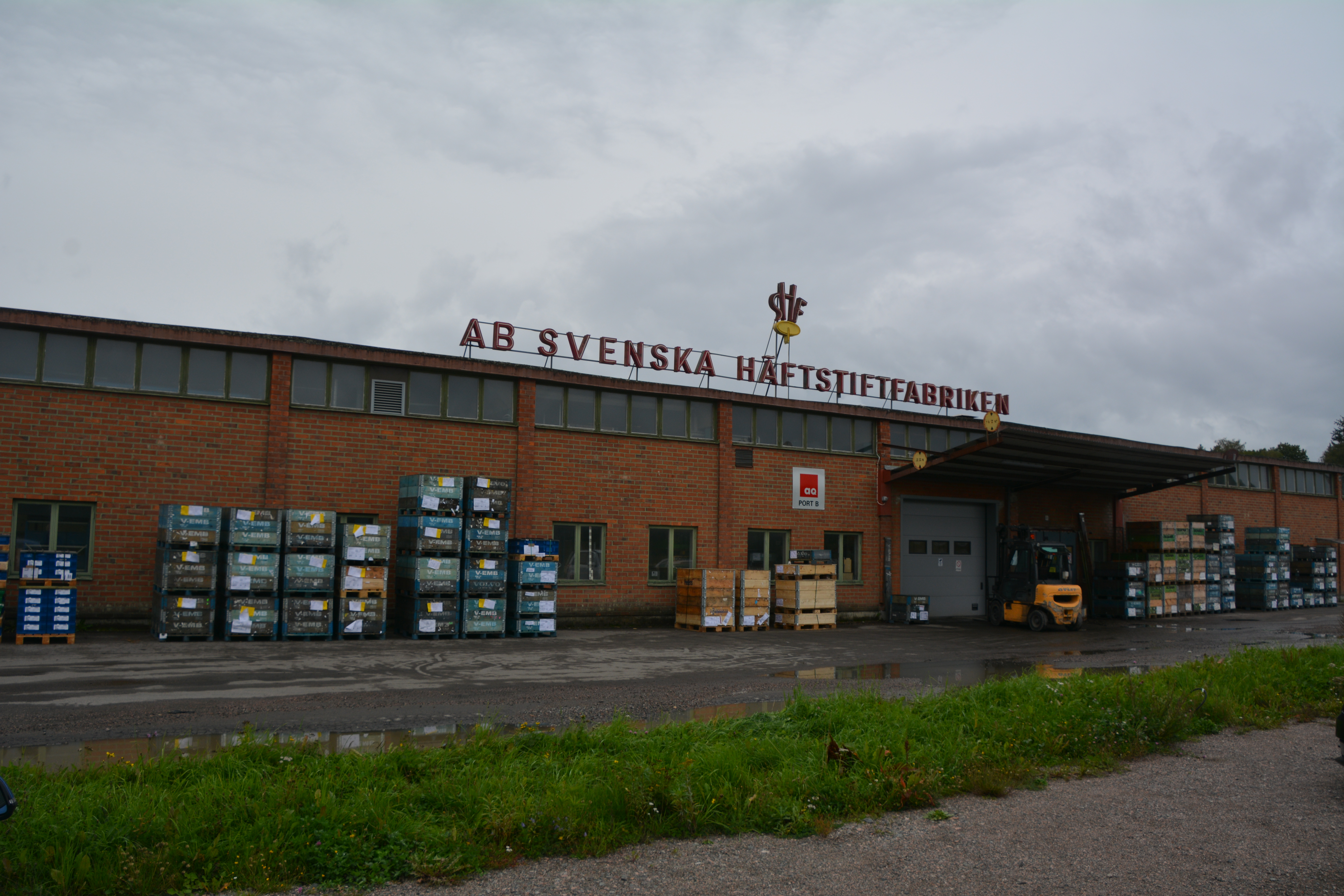 Svenska Häftstiftsfabriken i Pålsboda